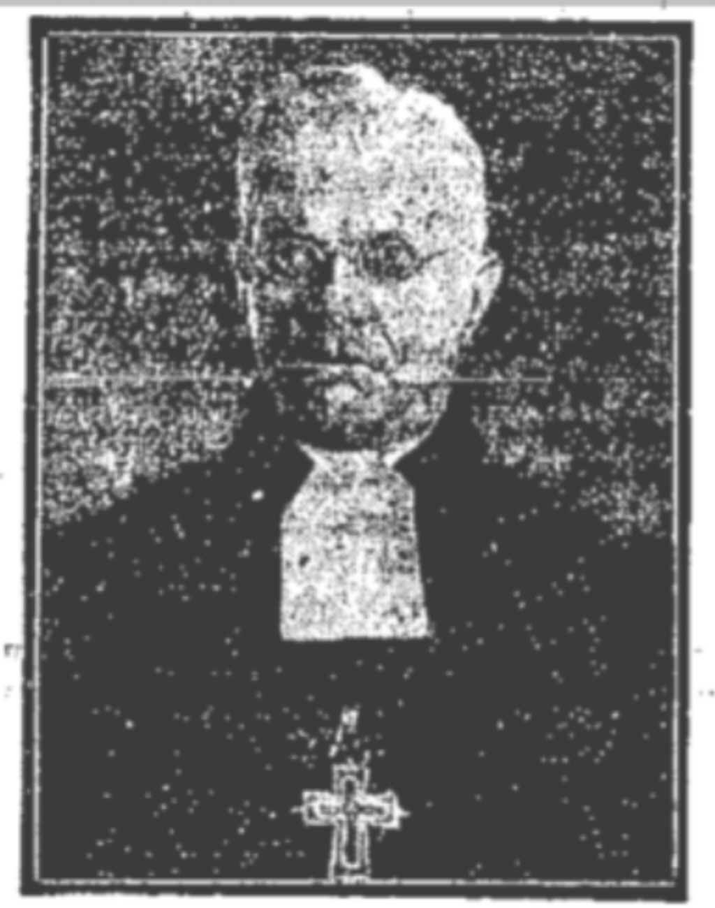 Georg Burghart (1865-1954), German Protestant theologian and high-ranking clergyman